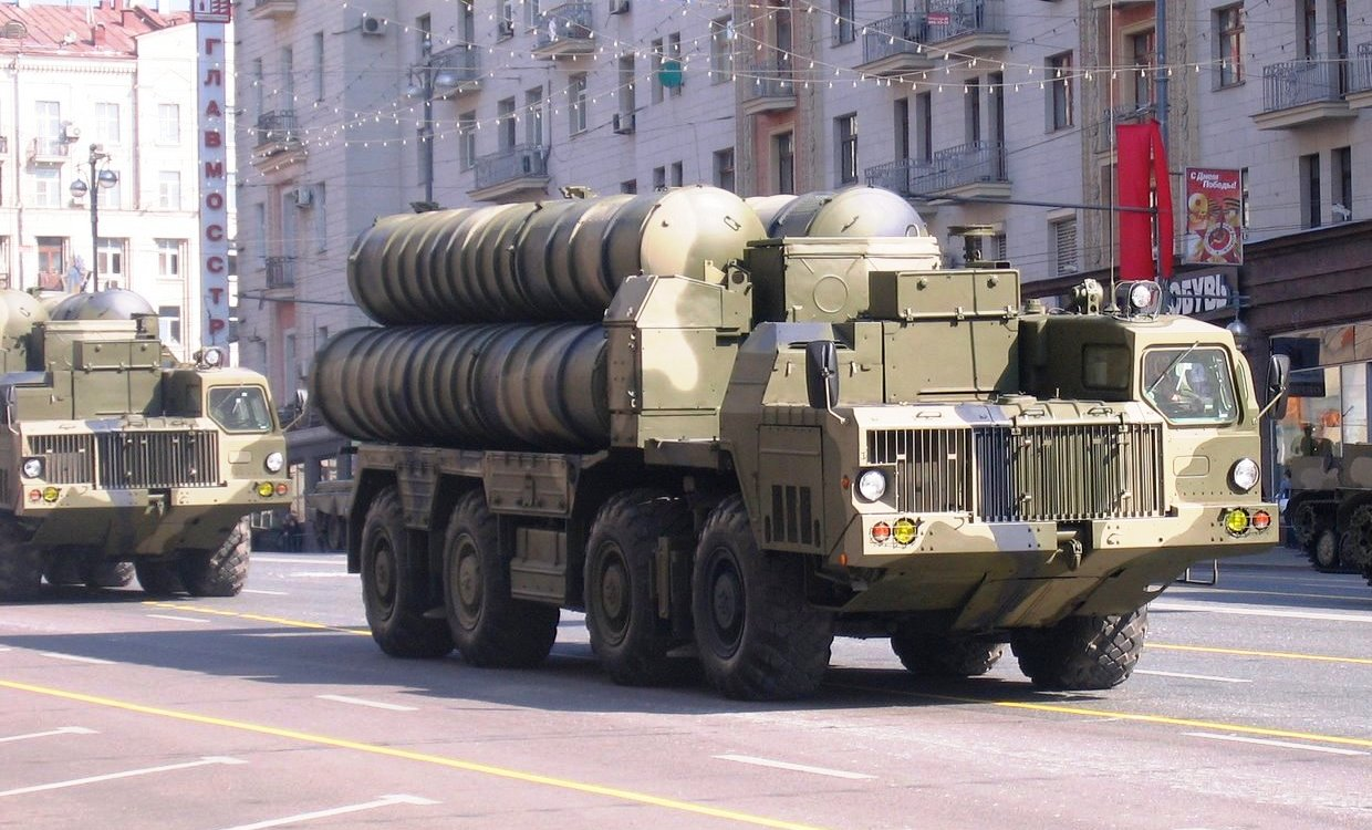 Rehearsal for the 2008 Moscow May Parade.